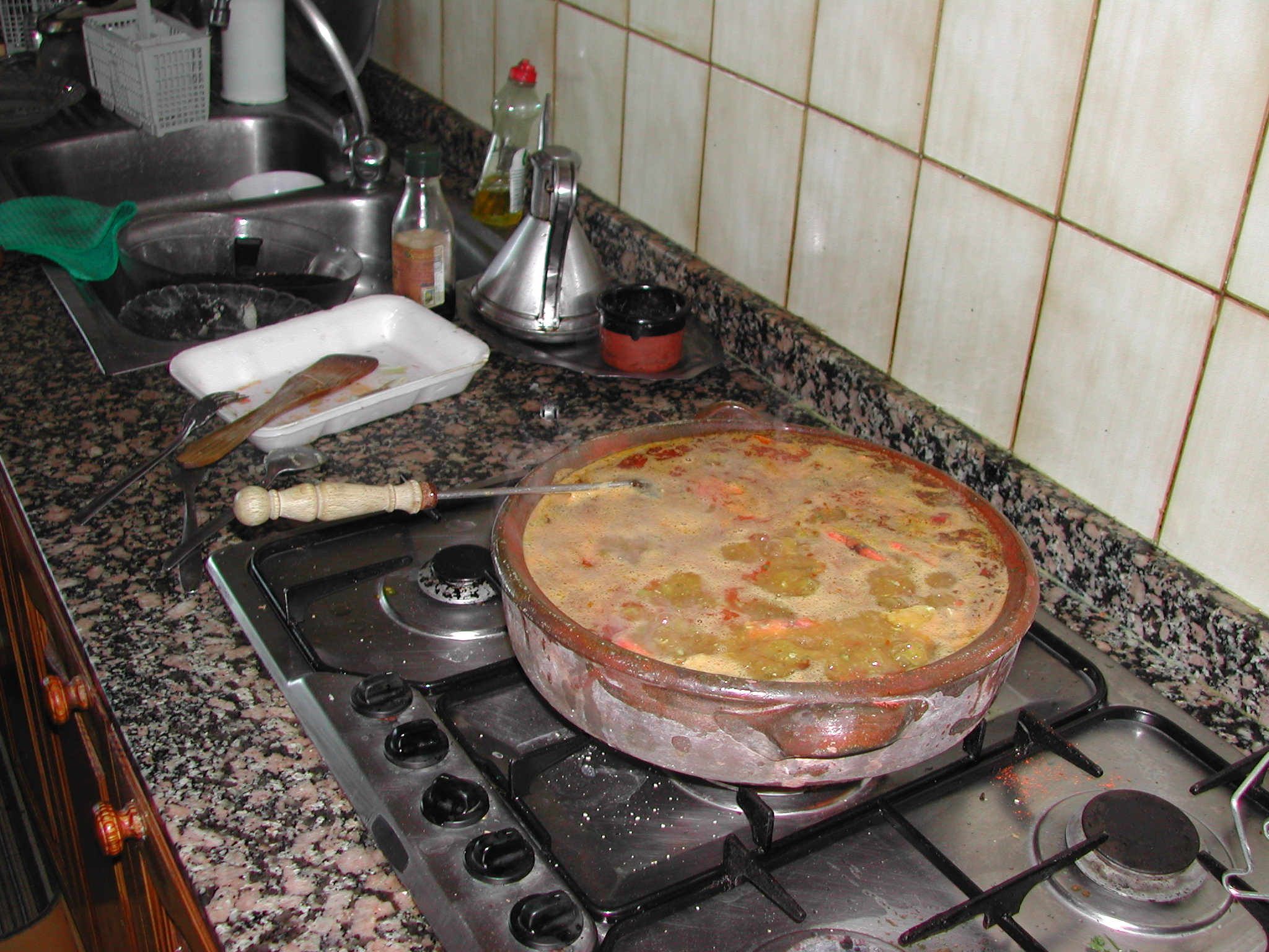 "dirty" Mallorcan rice pan (rice with broth and meat and vegetable pieces),Mallorca.